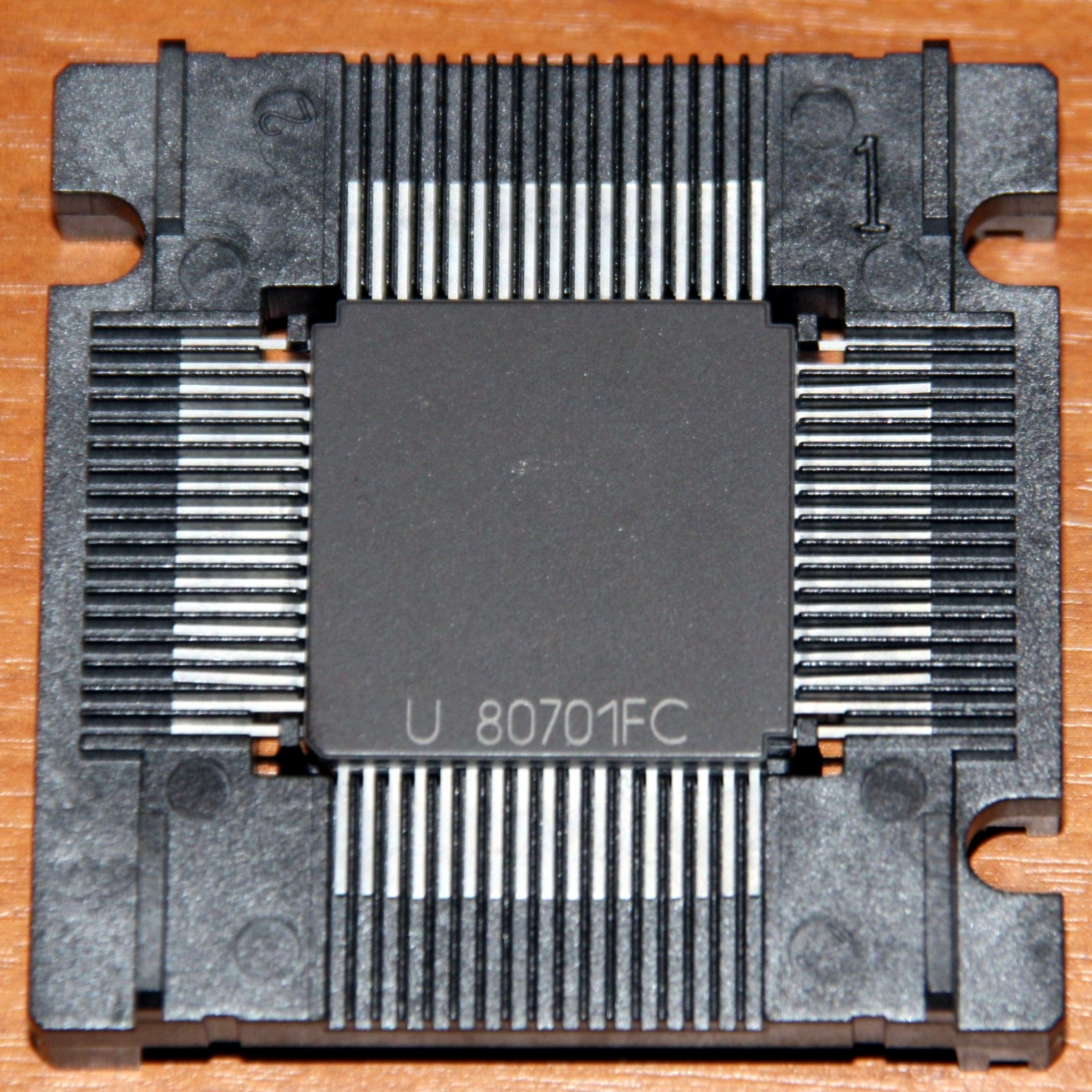 Microprocessor MME U80701FC - DEC 78032 Clone from East Germany (G.D.R) ca 1990